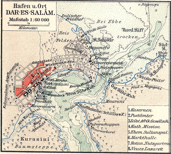 harbour and old town Dar es Salaam (1905)